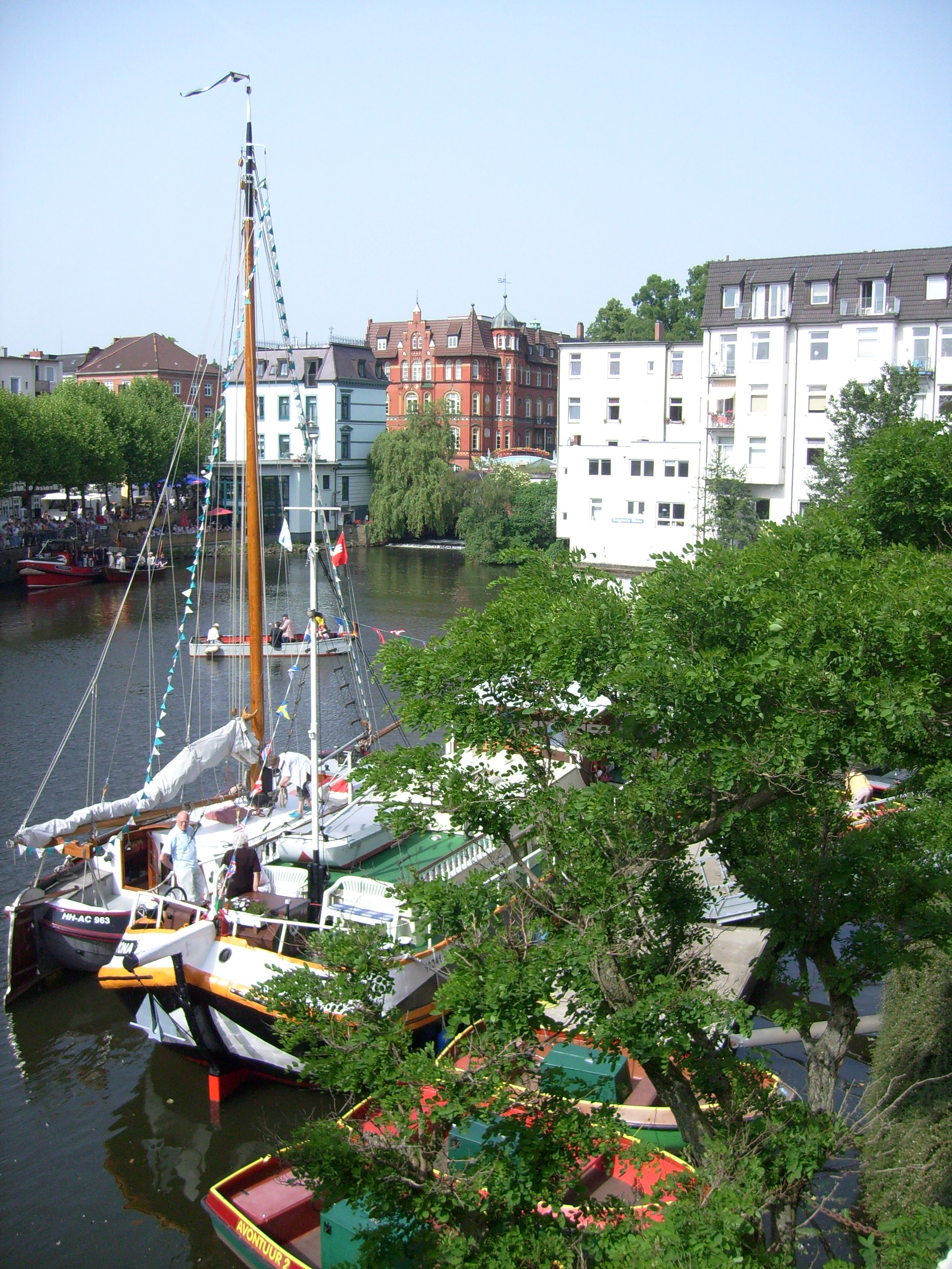 Harbour of Hamburg-Bergedorf during the Harbourparty 2008, filled with steamboats and historical sailing ships.